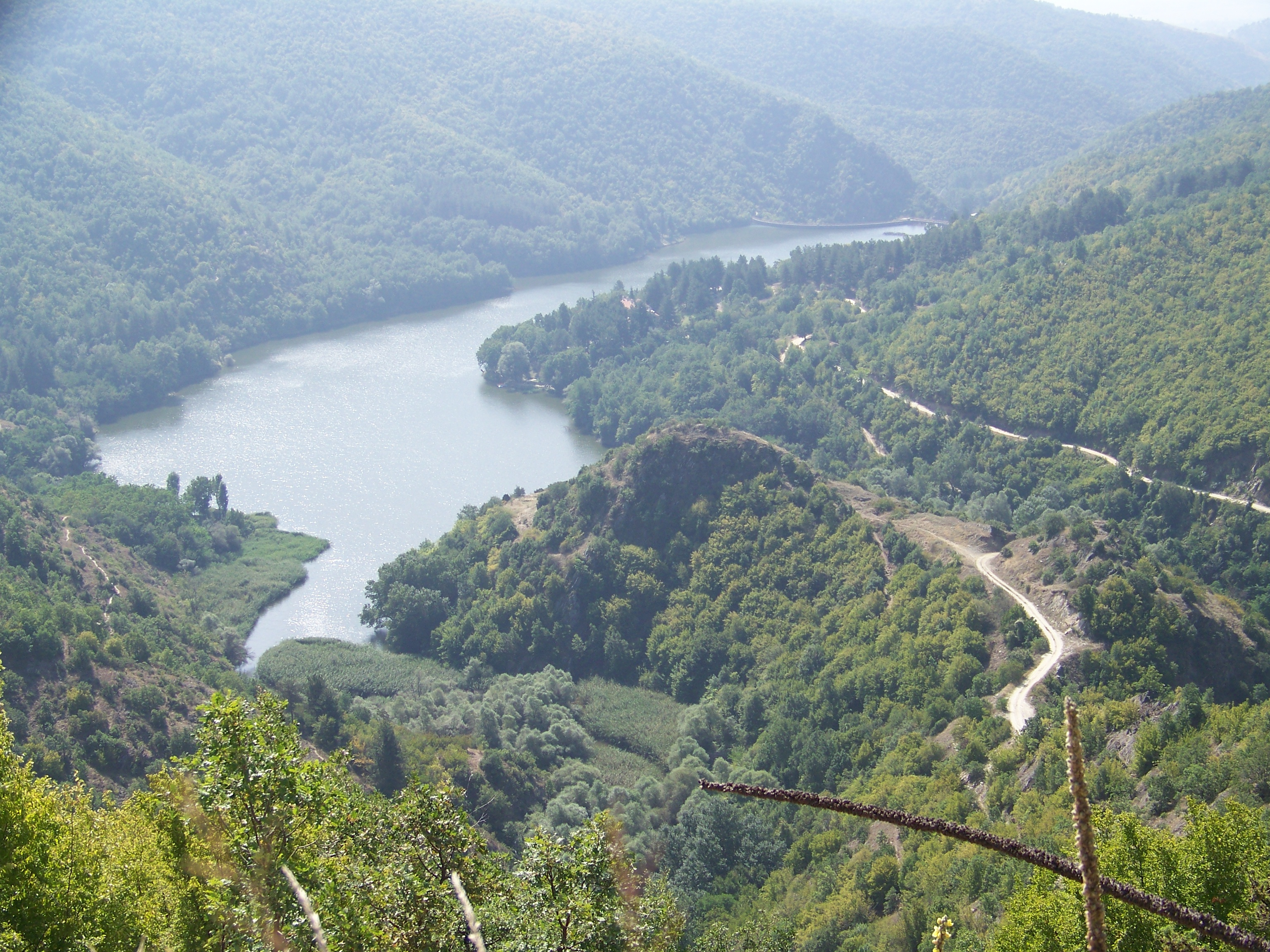 Gratce lake